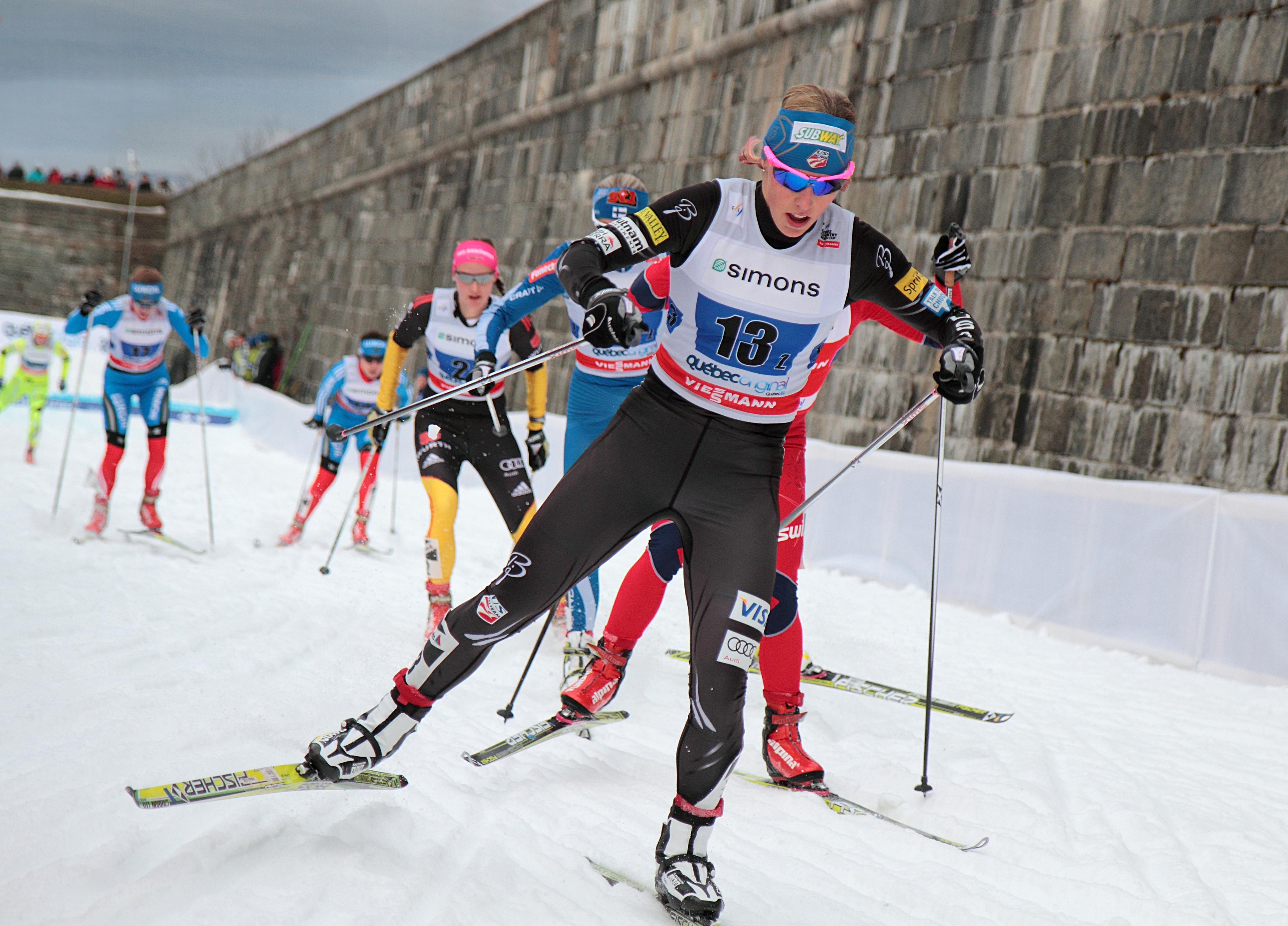 Kikkan Randall, FIS Cross-Country World Cup 2012, Quebec, Canada.